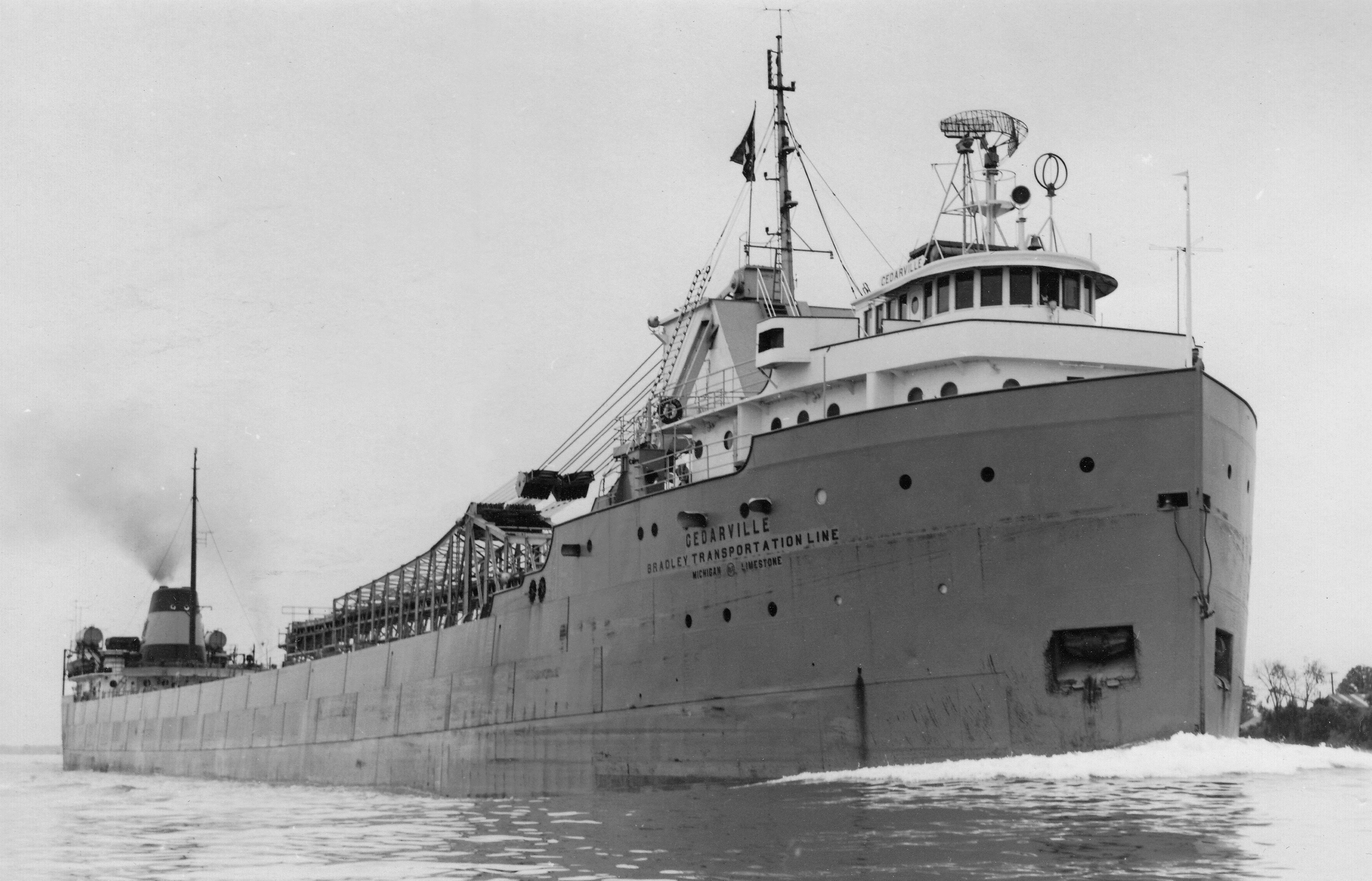 The Cedarville was built in 1927 by the Great Lakes Engineering Works at River Rouge. She sank on May 7, 1965 after colliding with a Norwegian ship in dense fog in the Straits of Mackinac.